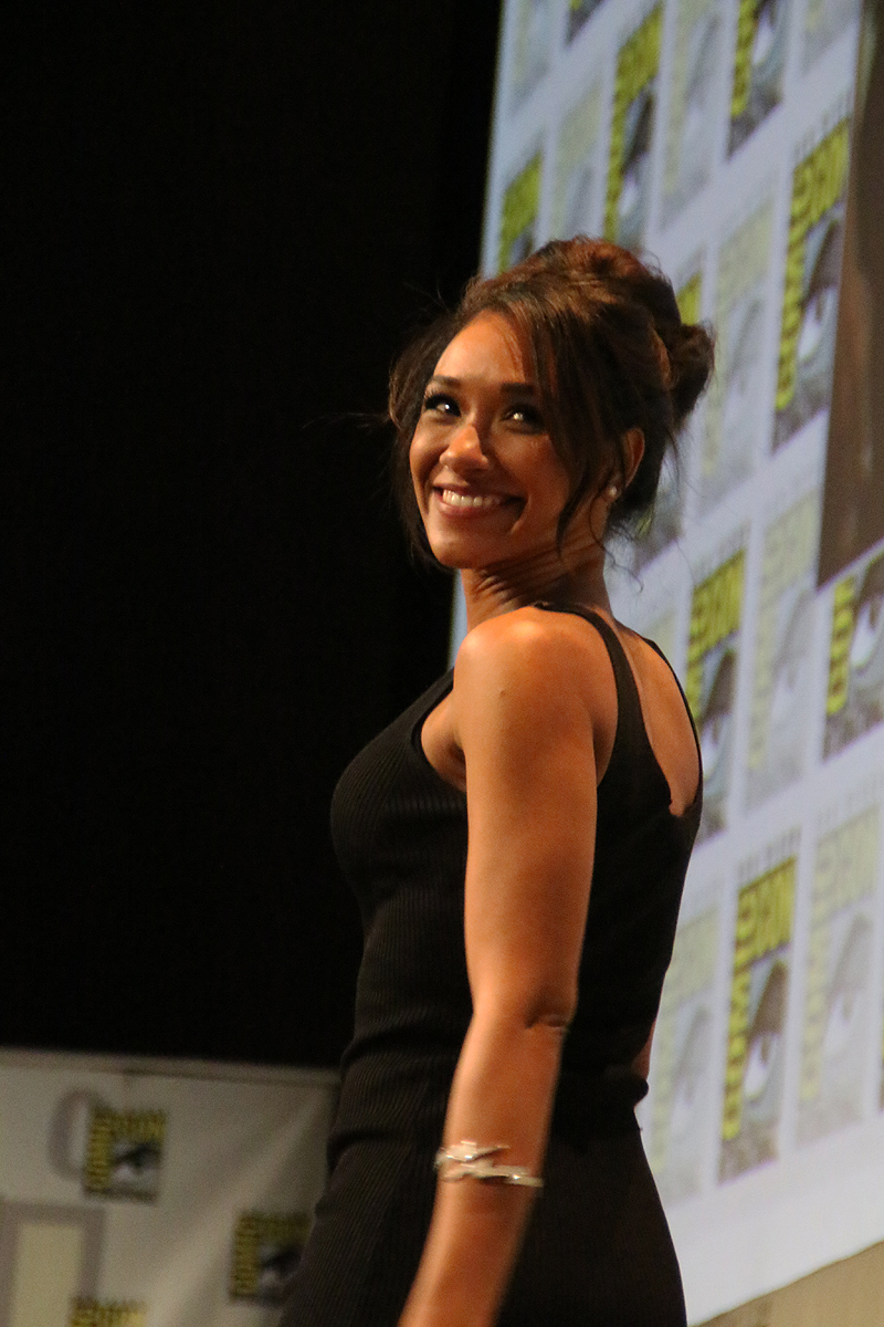 Candice Patton at the San Diego Comic-Con 2015